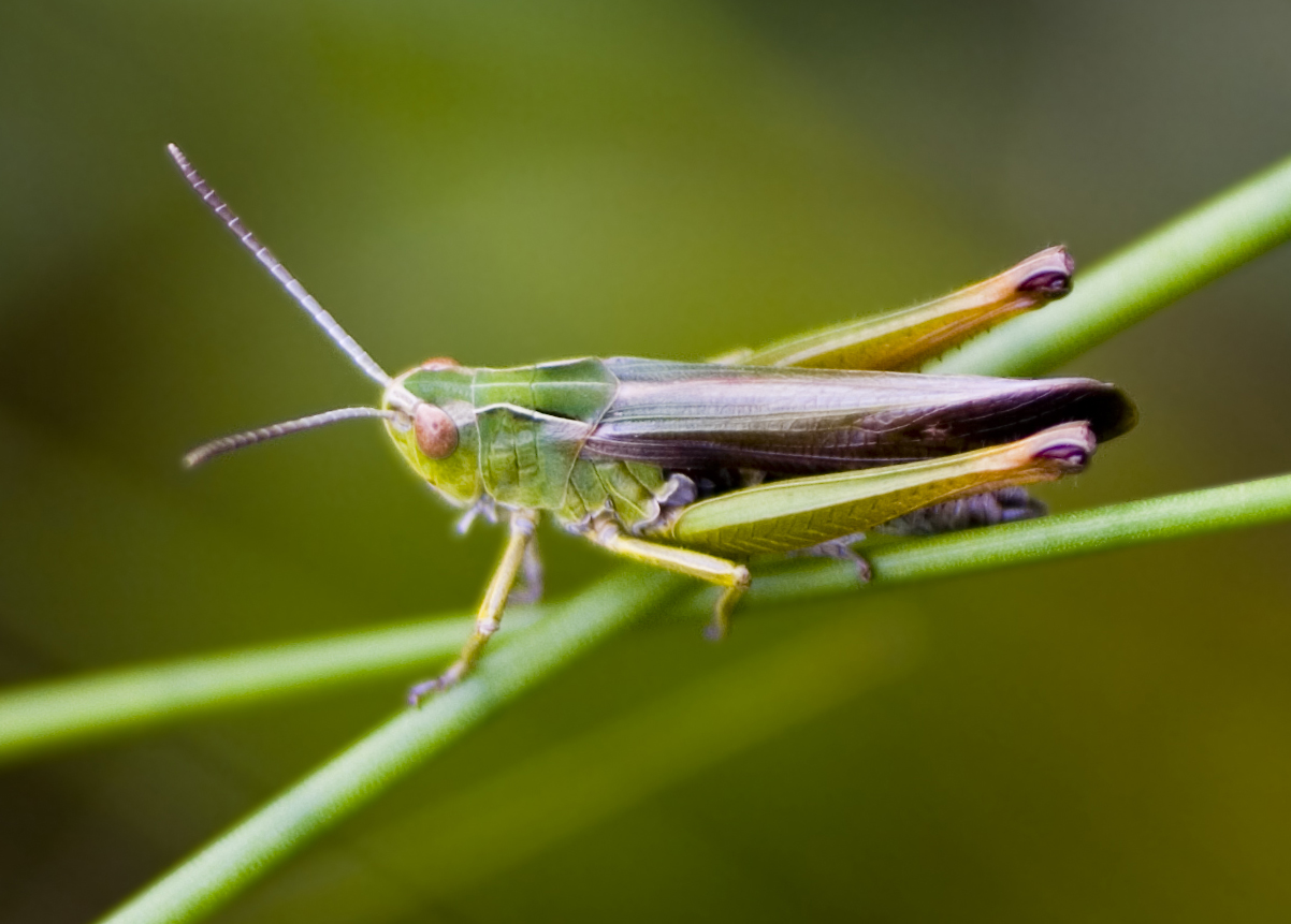 Omocestus viridulus, Common Green Grasshopper, male. Bunter Grashüpfer (Omocestus Viridulus)